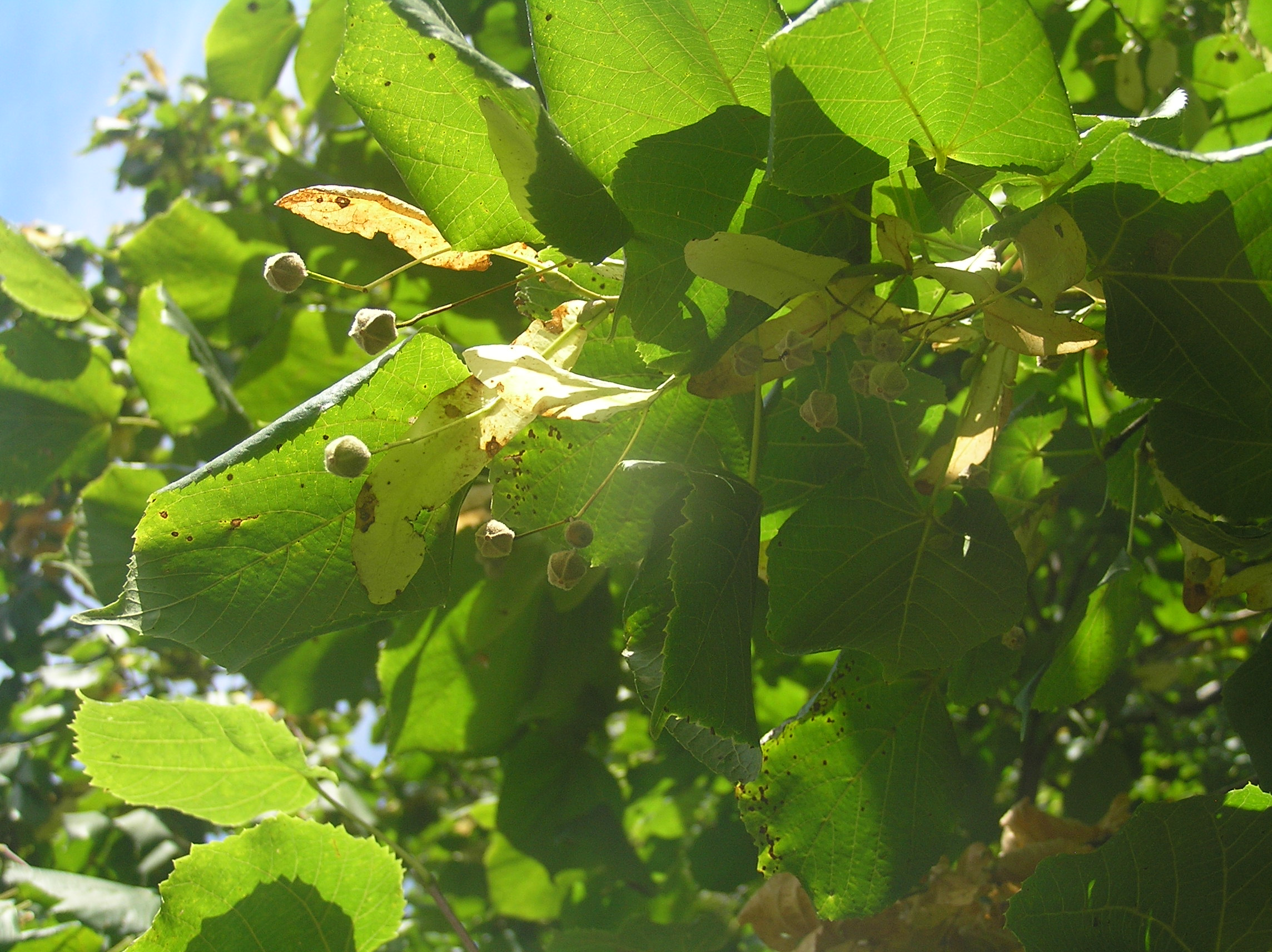 Vejdova lípa, Pastviny, Czech Republic